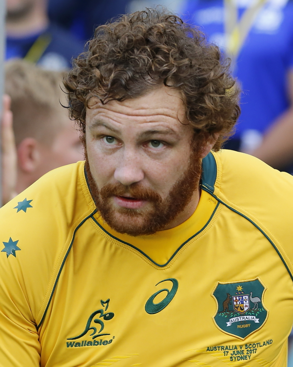 2017.06.17.15.00.45-Scott Higginbotham The 2017 mid-year rugby union international, 17 June 2017, Australia vs Scotland at Allianz Stadium, Sydney